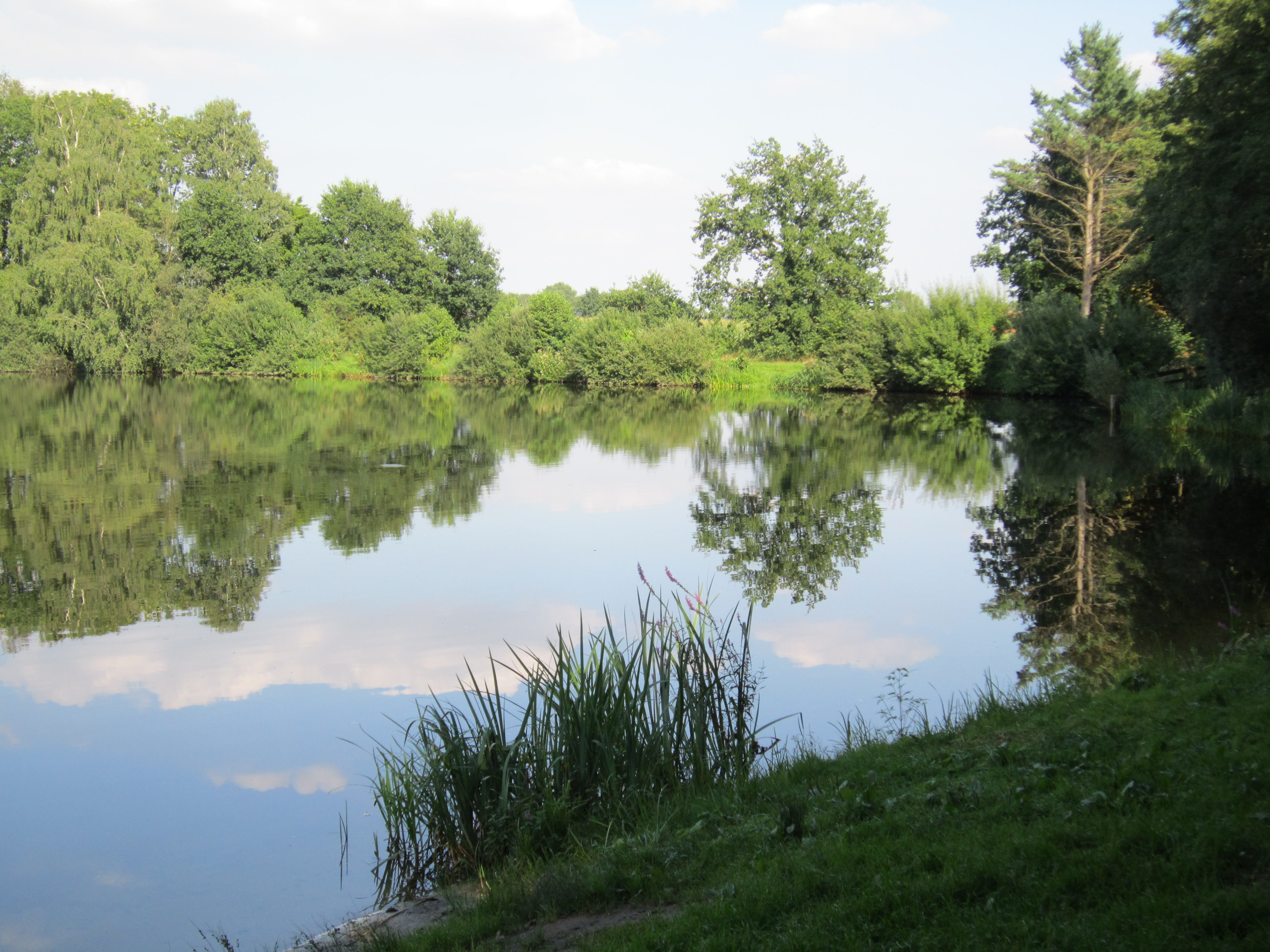 Lake "Feriensee" in Quakenbrück